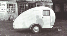 Tabbert Ideal (Original text: Knaus Tabbert Group GmbH) Released into the public domain (by the author)